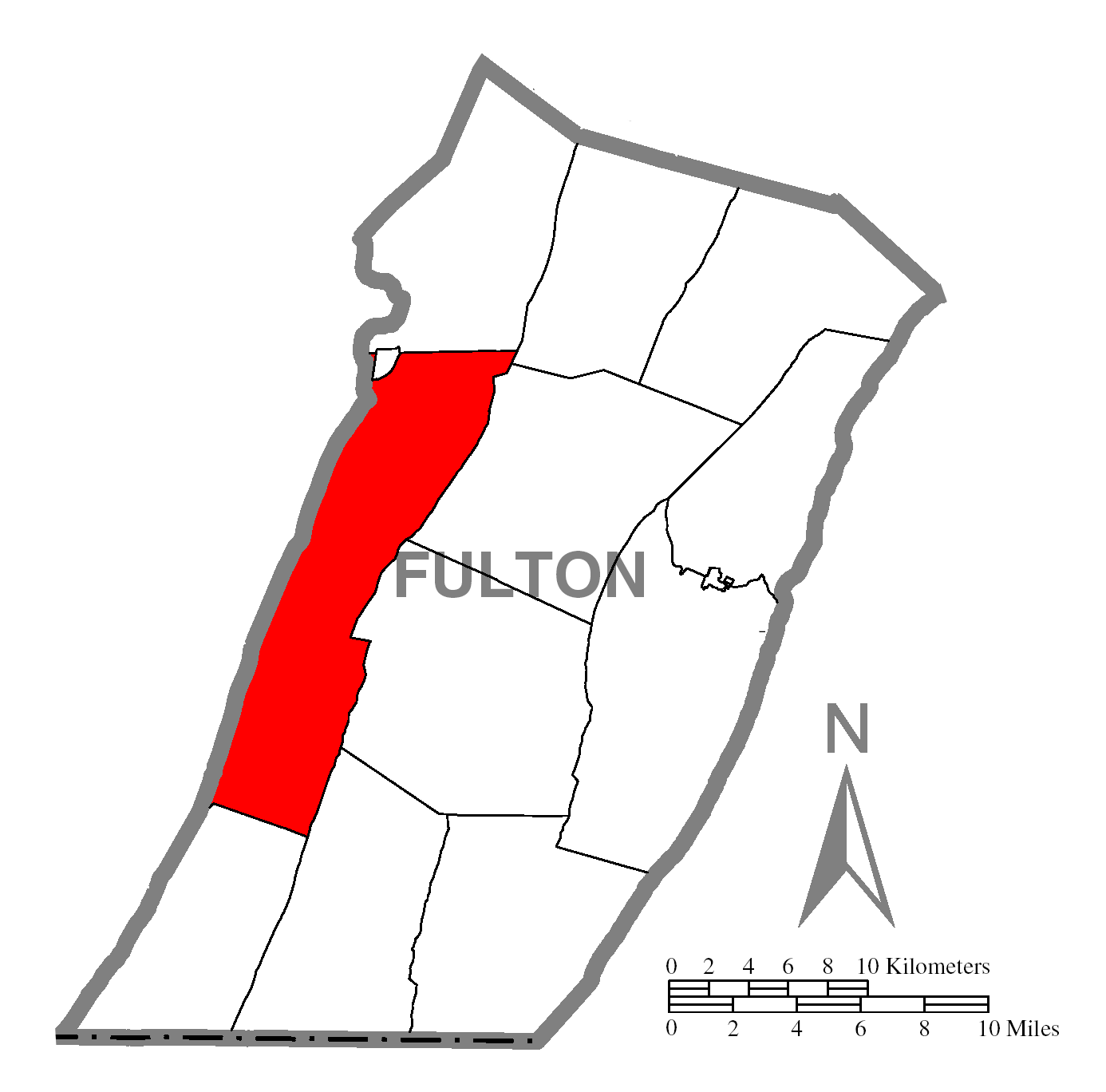 A map of Fulton County showing Brush Creek Township, Pennsylvania (alternate) highlighted on the map.